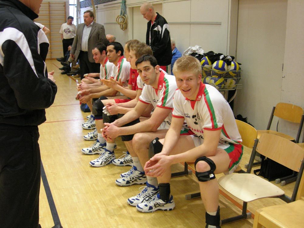 Finland volleyball team Keski-Savon Pateri preparing for the game season 2008.